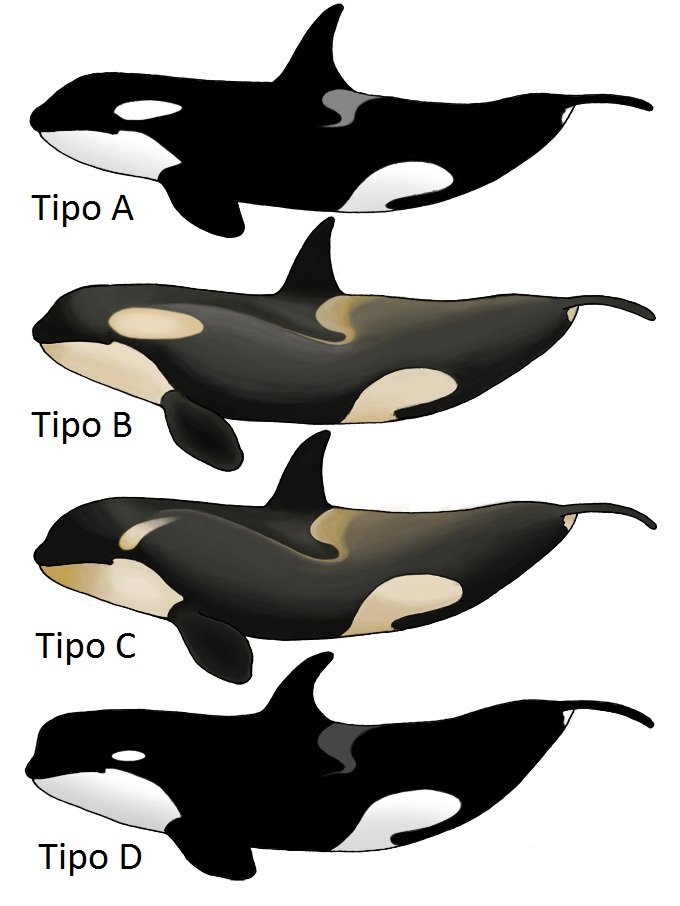 Known types of Killer Whale